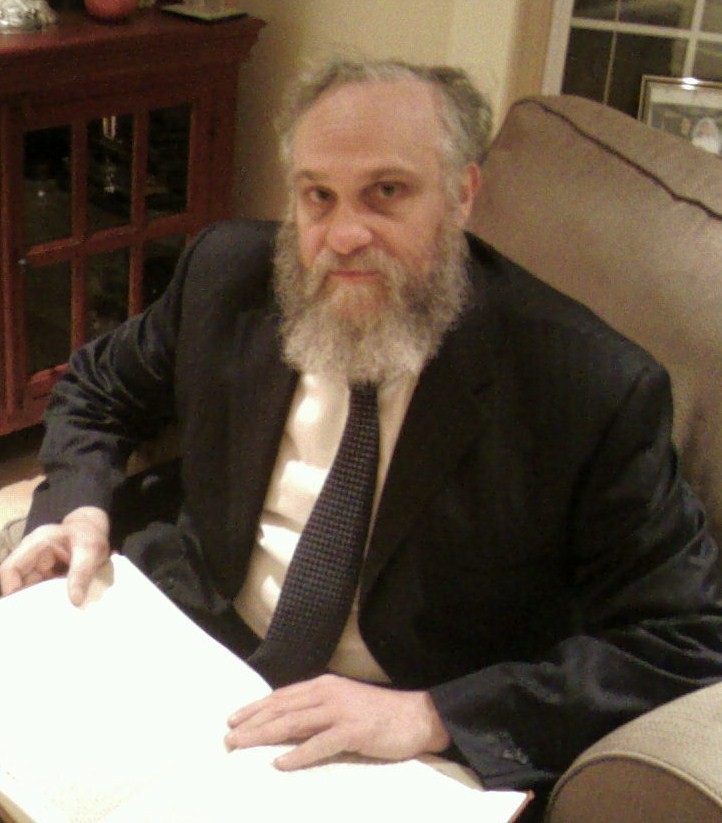 A picture of Rabbi Moshe Kletenik